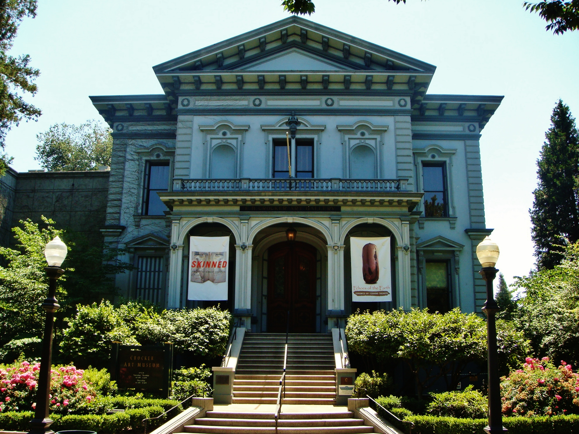 Entrance to the Crocker Art Museum in Sacramento. Originally built in 1872, the building doubled as a residential mansion and art gallery.